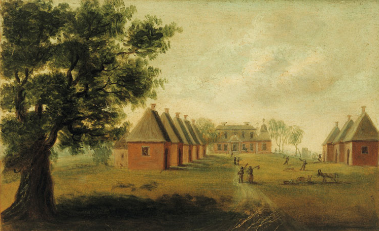 British painter Thomas Coram painted Mulberry Plantation in about 1800 when the house still had 4,000 acres and two rows of service buildings.